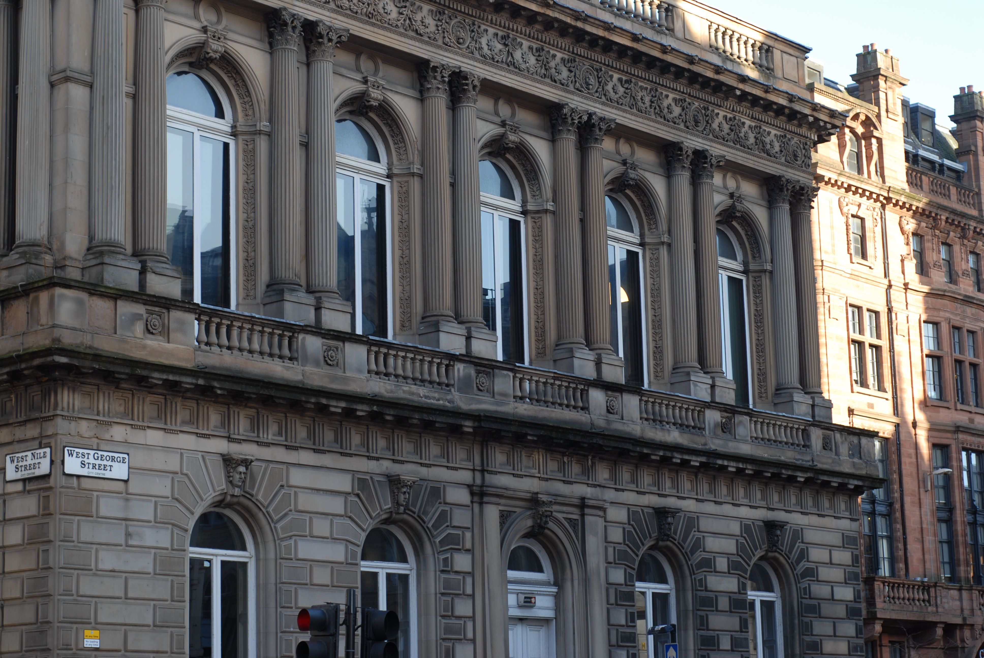 Royal Faculty of Procurators, Glasgow. St George's Place. Charles Wilson, 1854.